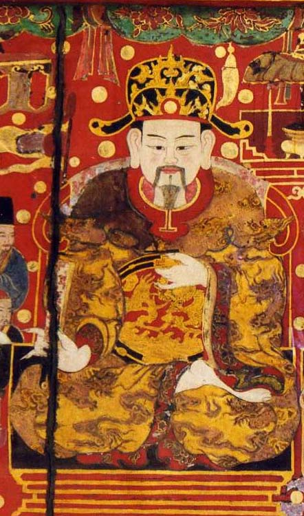 In the 19th century Vietnam Fine Arts had two distinguished tendencies: the royal art and the folk art. The painting Emperor Lý Nam Đế and the Empress is of the royal tendency showing how the people honoured Emperor Lý Nam Đế.